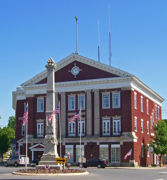 Photographed by Daniel Case 2007-05-30